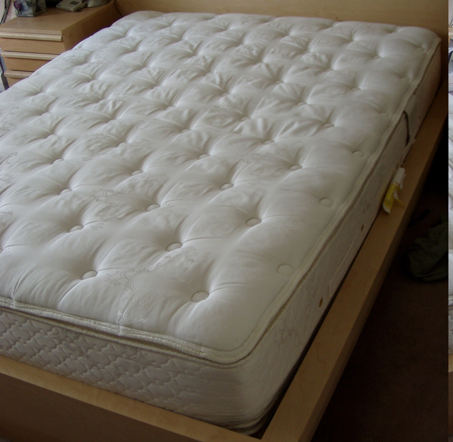 A pillowtop mattress (U.S. size "queen")